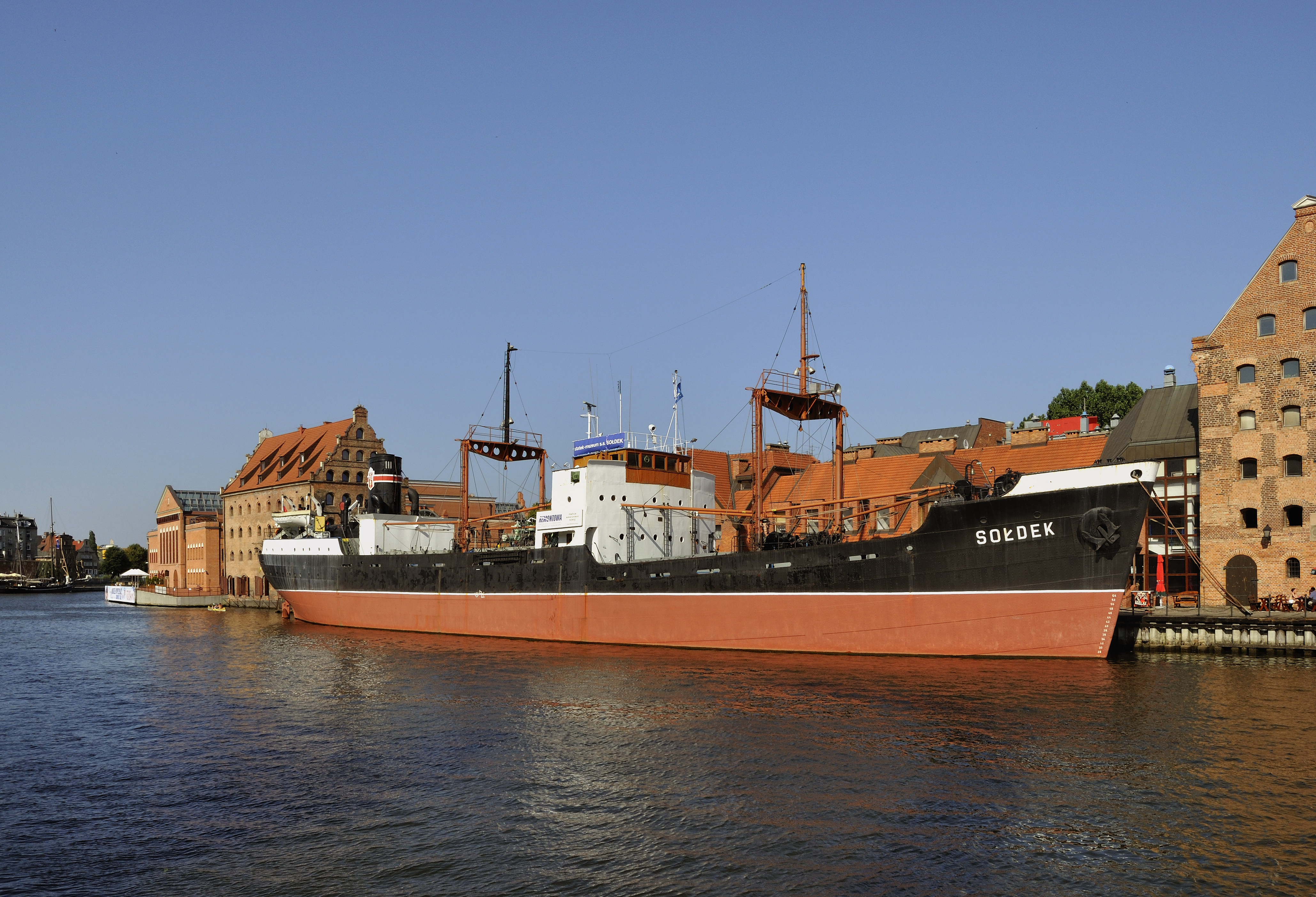 Picture taken in Gdańsk after Wikimania 2010 conference. SS Sołdek.